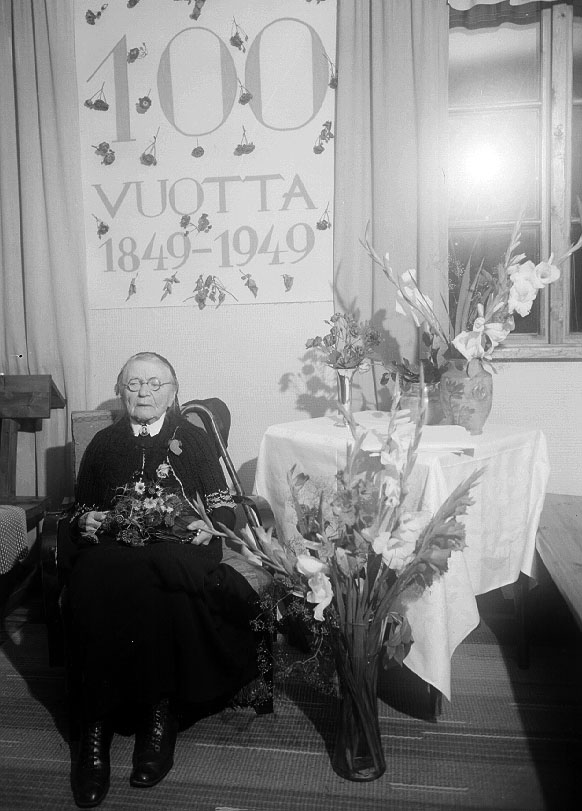 Ina Liljeqvist